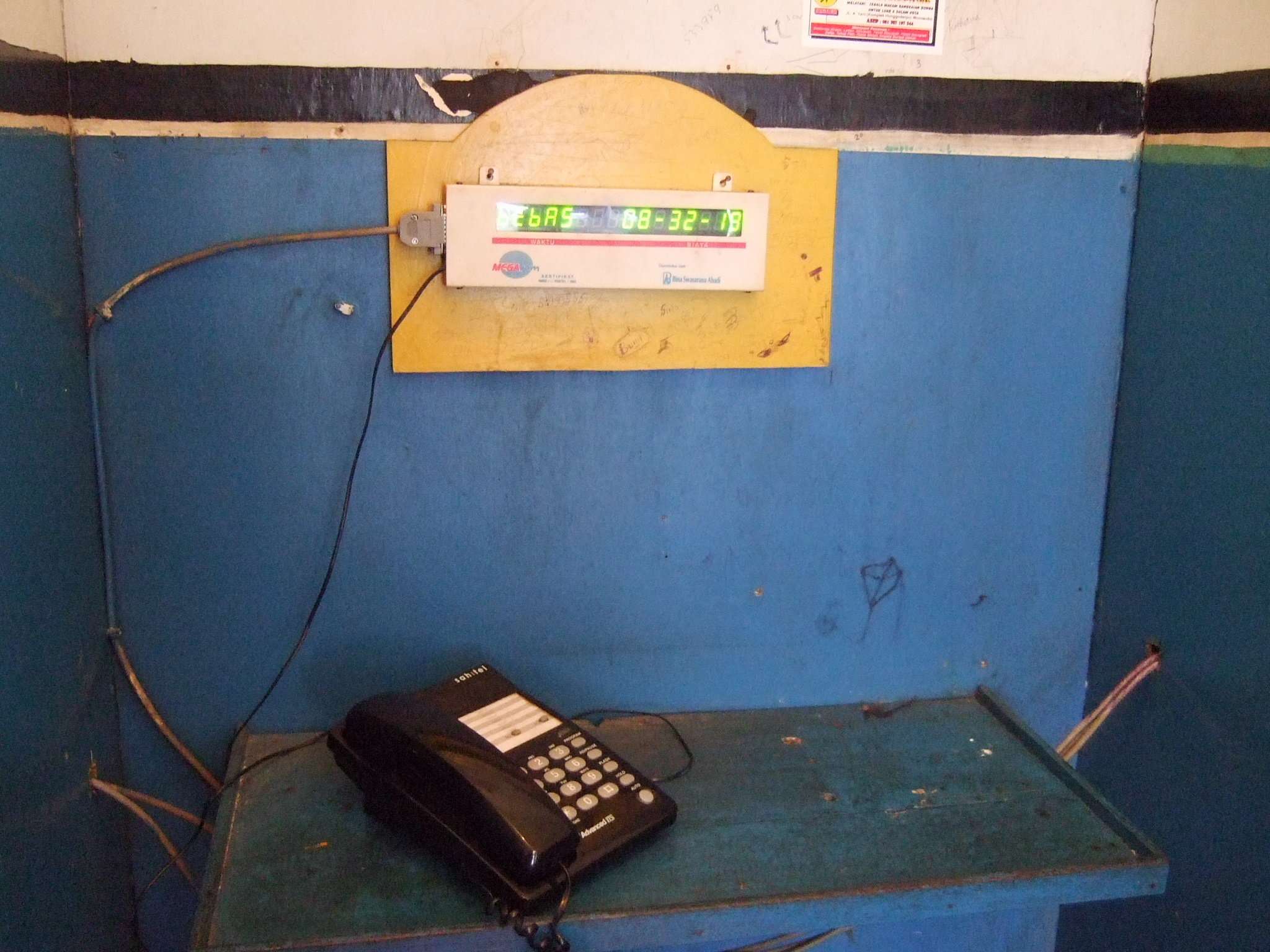 Telephone booth in a call shop in Central Java Indonesia